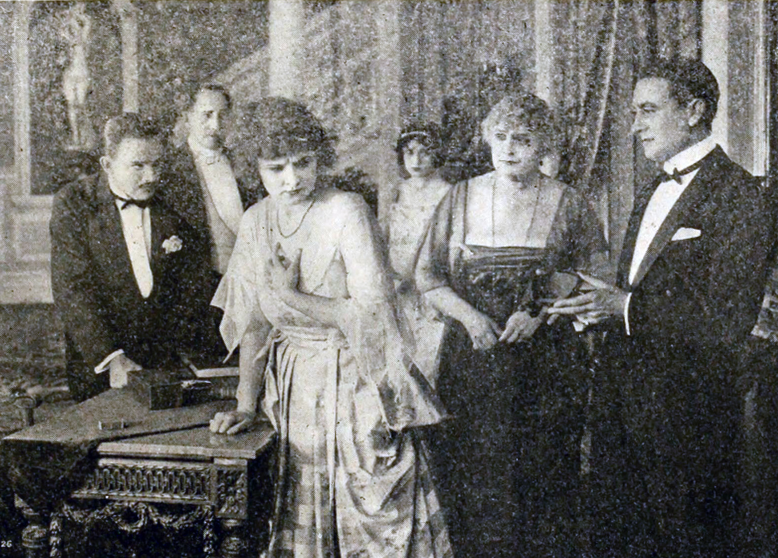 Still from the American film Under Cover (1916) with Hazel Dawn, Ida Darling, and Owen Moore, from the cover of The Moving Picture World (July 1916).